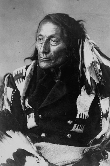 Bobtail, (Keskayiwew), Head Chief of the Montana Cree, 1887. Brother of Ermineskin